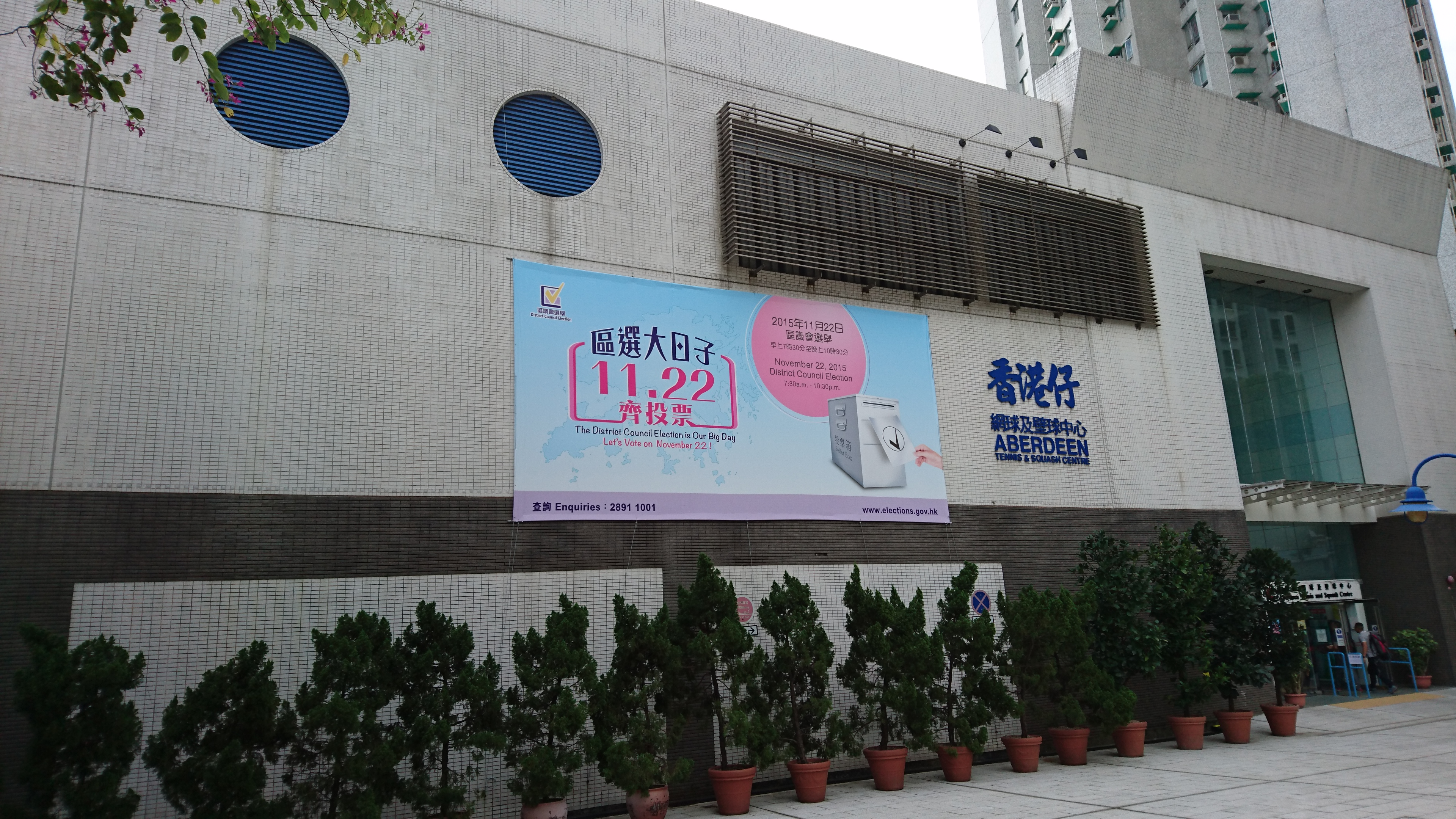 2015 DC Election Promotion at Aberdeen Tennis & Squash Centre